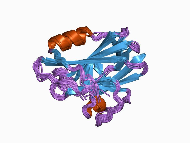 Cartoon representation of the molecular structure of protein registered with 1cur code.